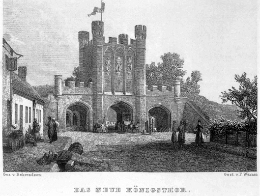 Kings' gate in Königsberg, Prussia as in XIXth century